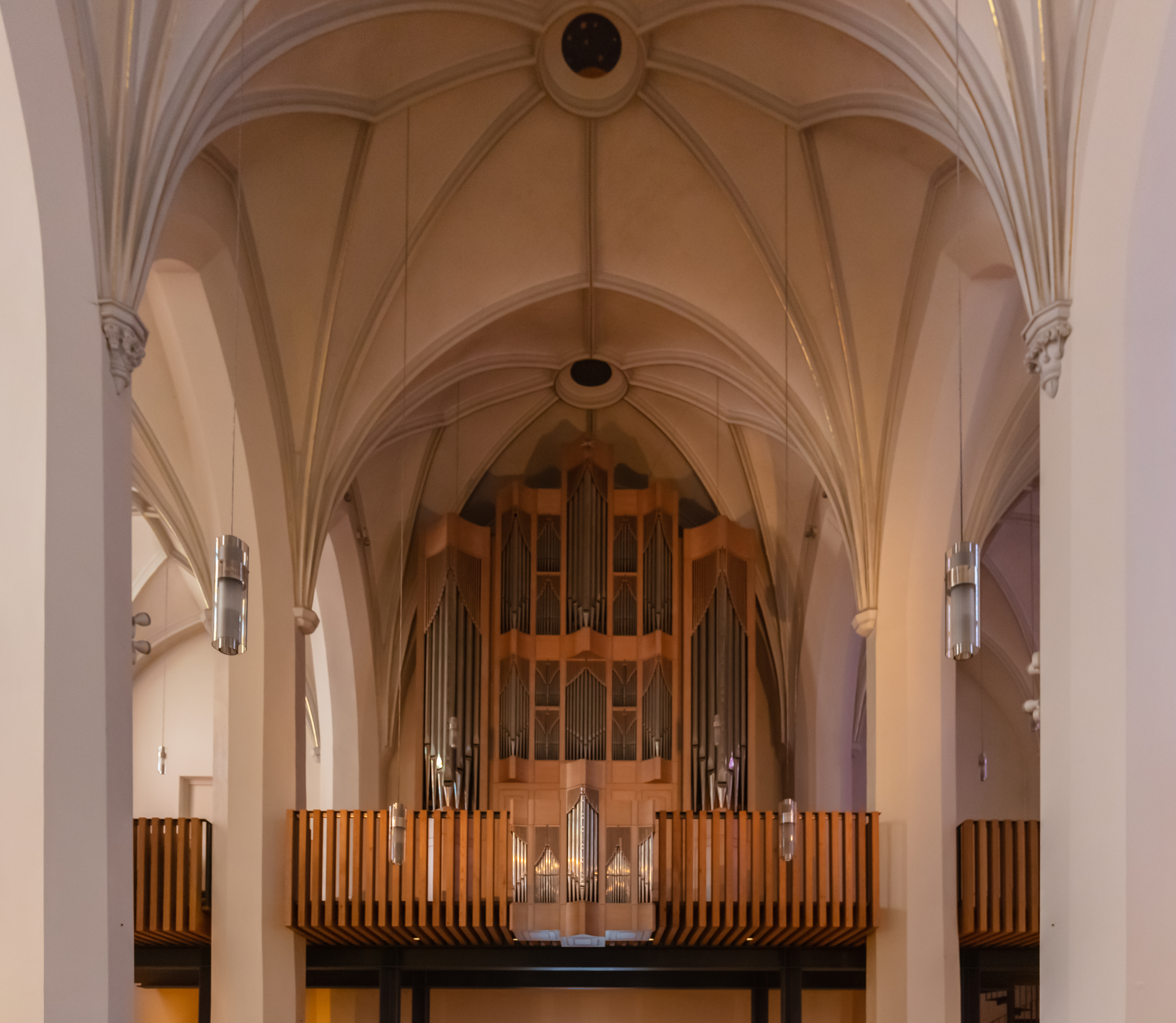 St. Nicholas Church, Rosenheim, Germany